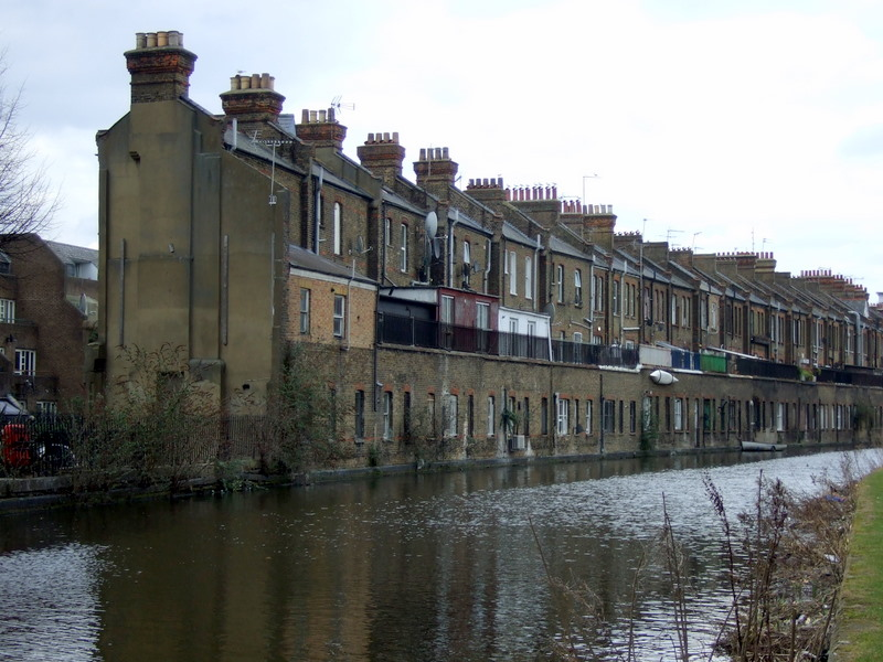 Harrow Road houses from the back